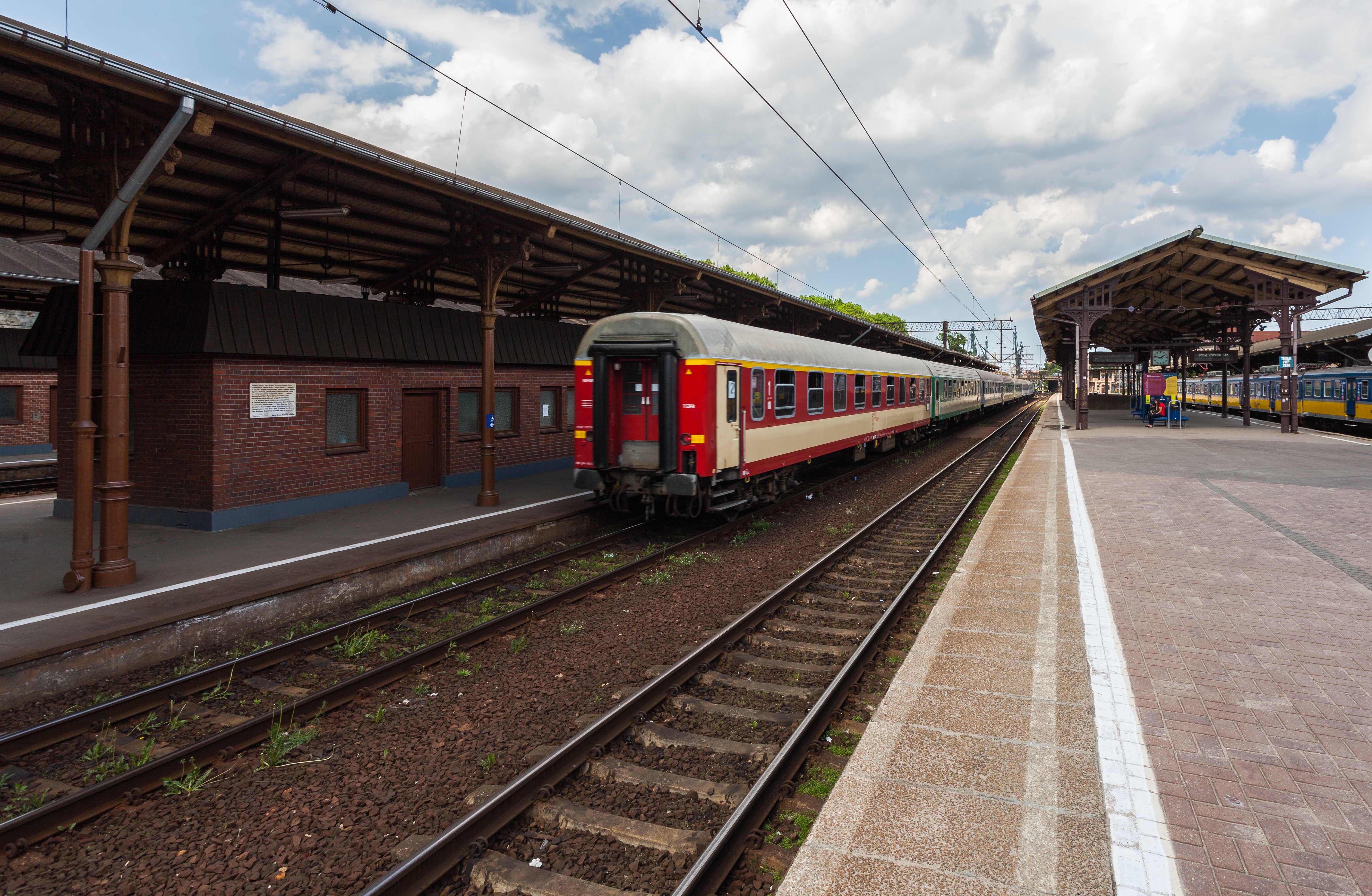 Central Railway Station, Gdansk, Poland